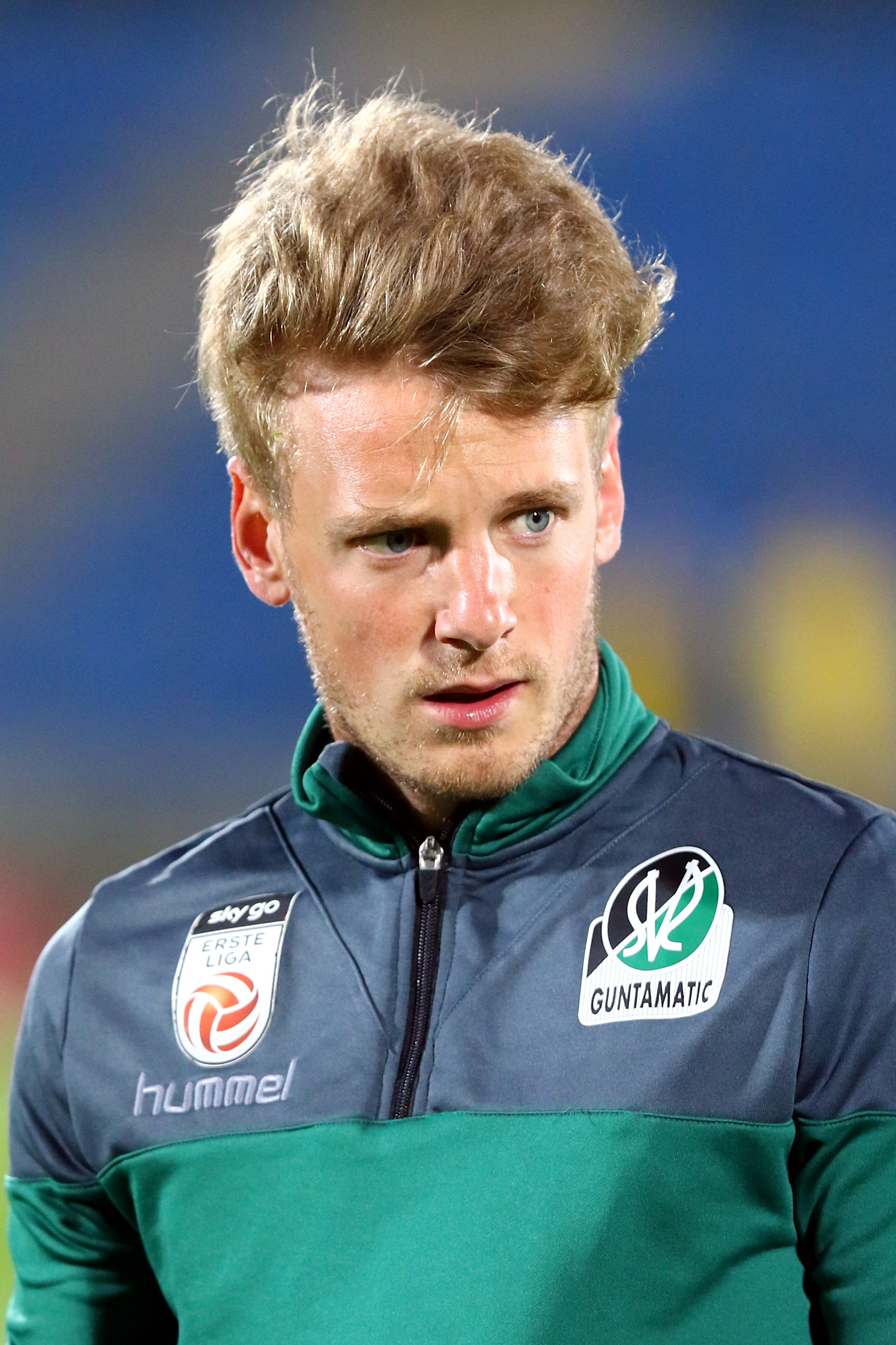 Football-championship Erste Liga 2017–18 - SC Wiener Neustadt (white shirts) vs. SV Ried (red shirts) 1-0. – The photo shows Pius Grabher (SV Ried).